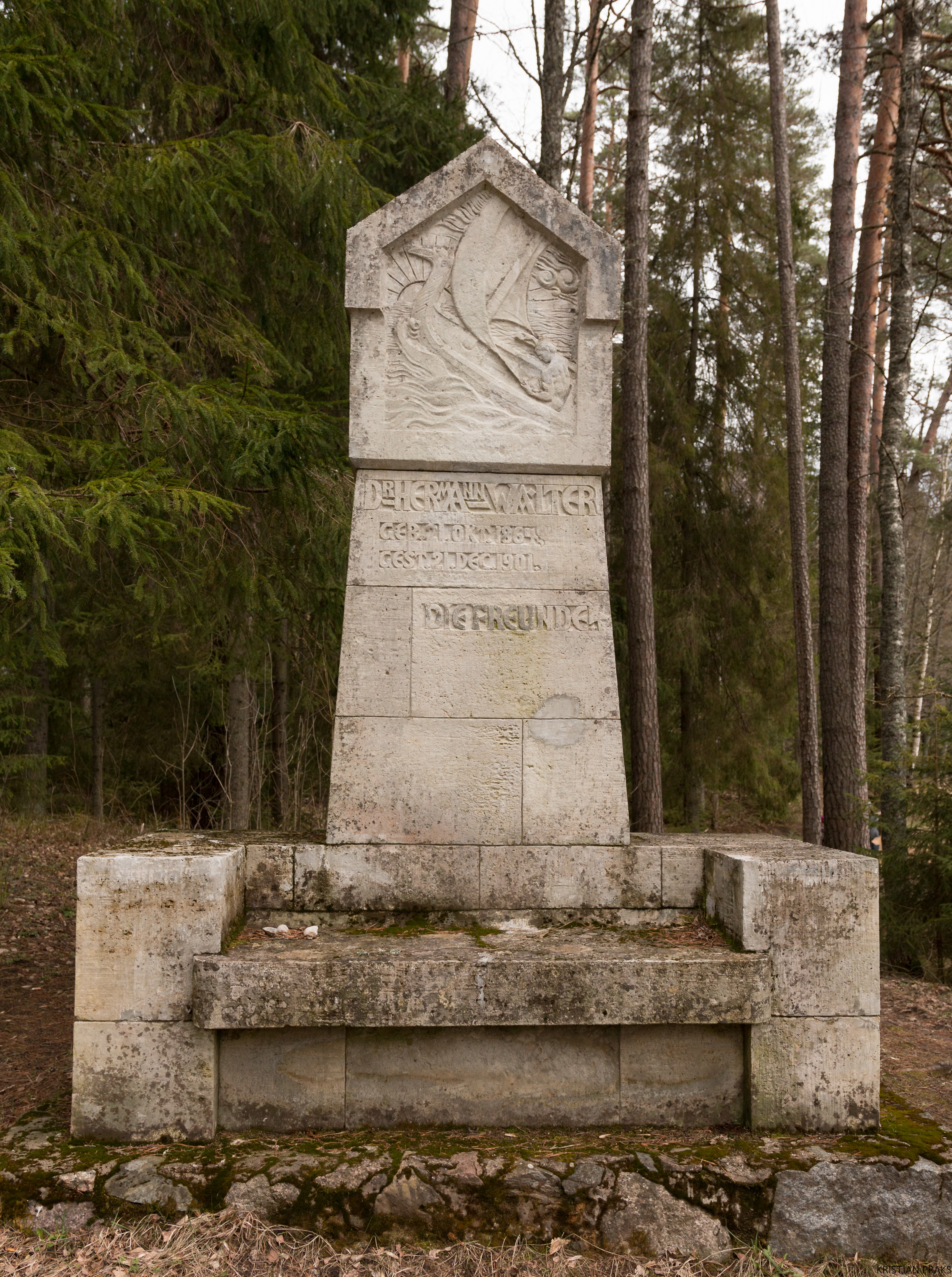 Hermann Walter's monument near the Aakre Mill reservoir.